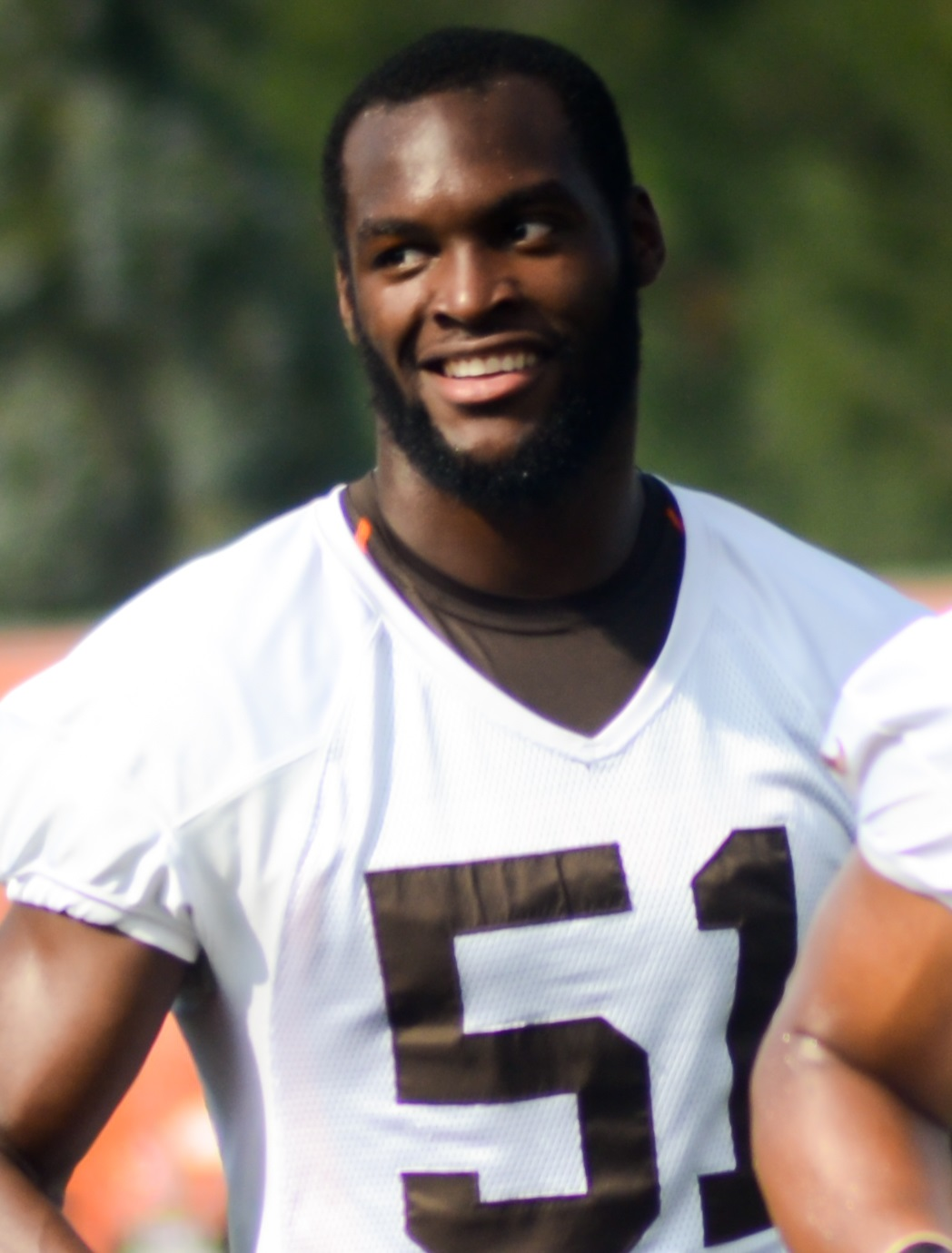 Barkevious Mingo at 2014 Cleveland Browns training camp.